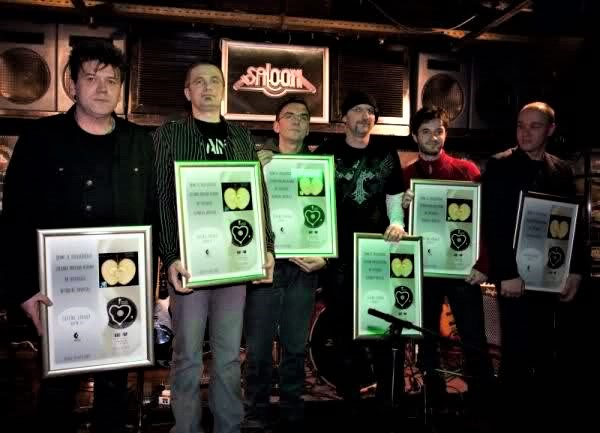 Kresimir Kastelan and Crvena Jabuka bend. Silver awards for Volim te album in Saloon Club - Zagreb)